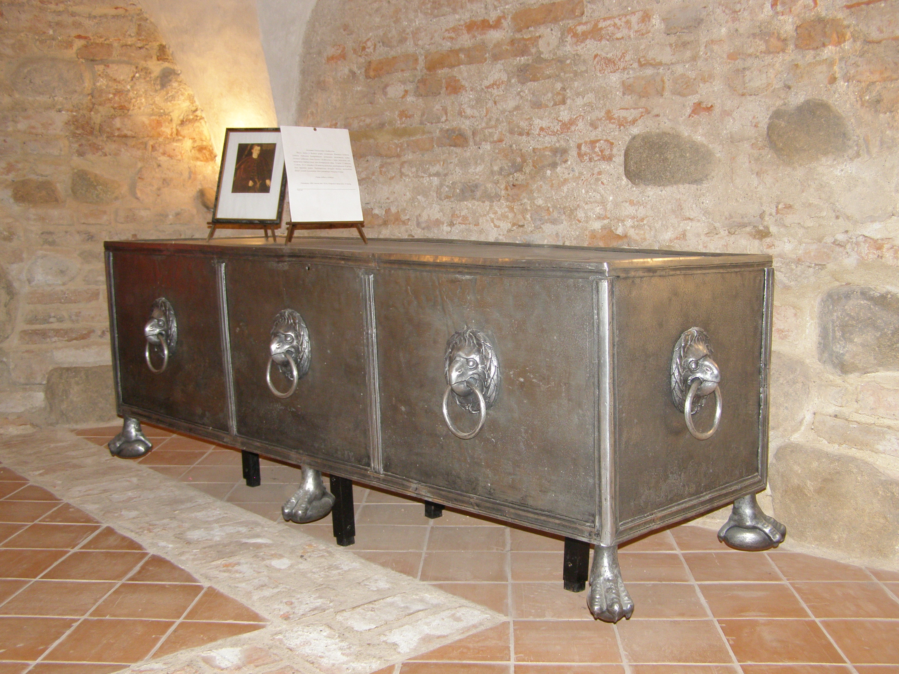 Kretinga, Kretinga district, LithuaniaLietuvių: Jeronimo Krizostomo Chodkevičiaus karstas Kretingos bažnyčioje, Kretingos rajonas, Lietuva